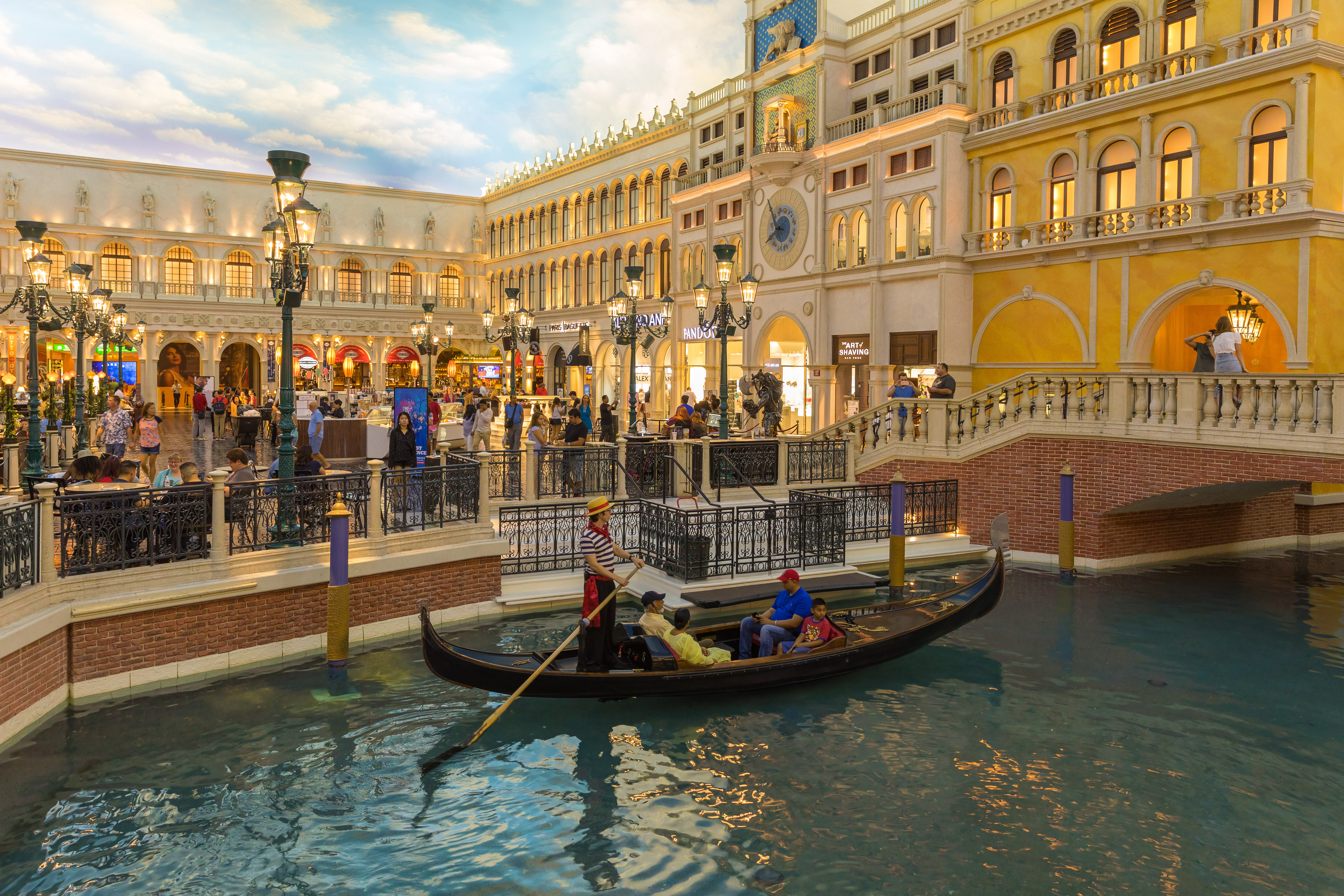 Indoor replica of the Piazza San Marco at the shopping mall of the Venetian Resort Hotel Casino in Las Vegas, Nevada, United States